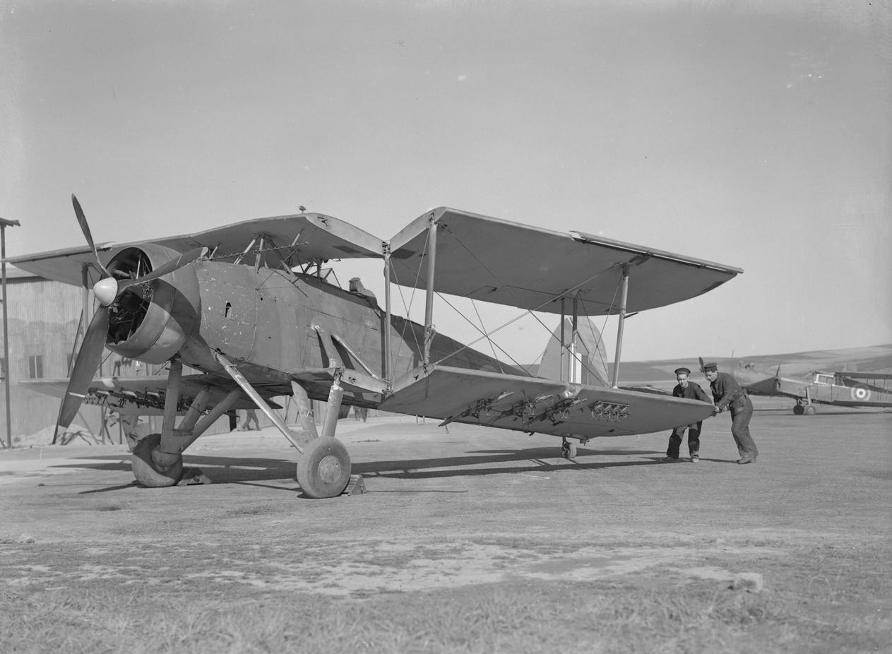 The Royal Navy during the Second World War Ground crew unfolding the wings of the Fairey Swordfish used for the meteorological flight from HMS SPARROWHAWK, Royal Naval Air Station, Hatston, The Orkneys.